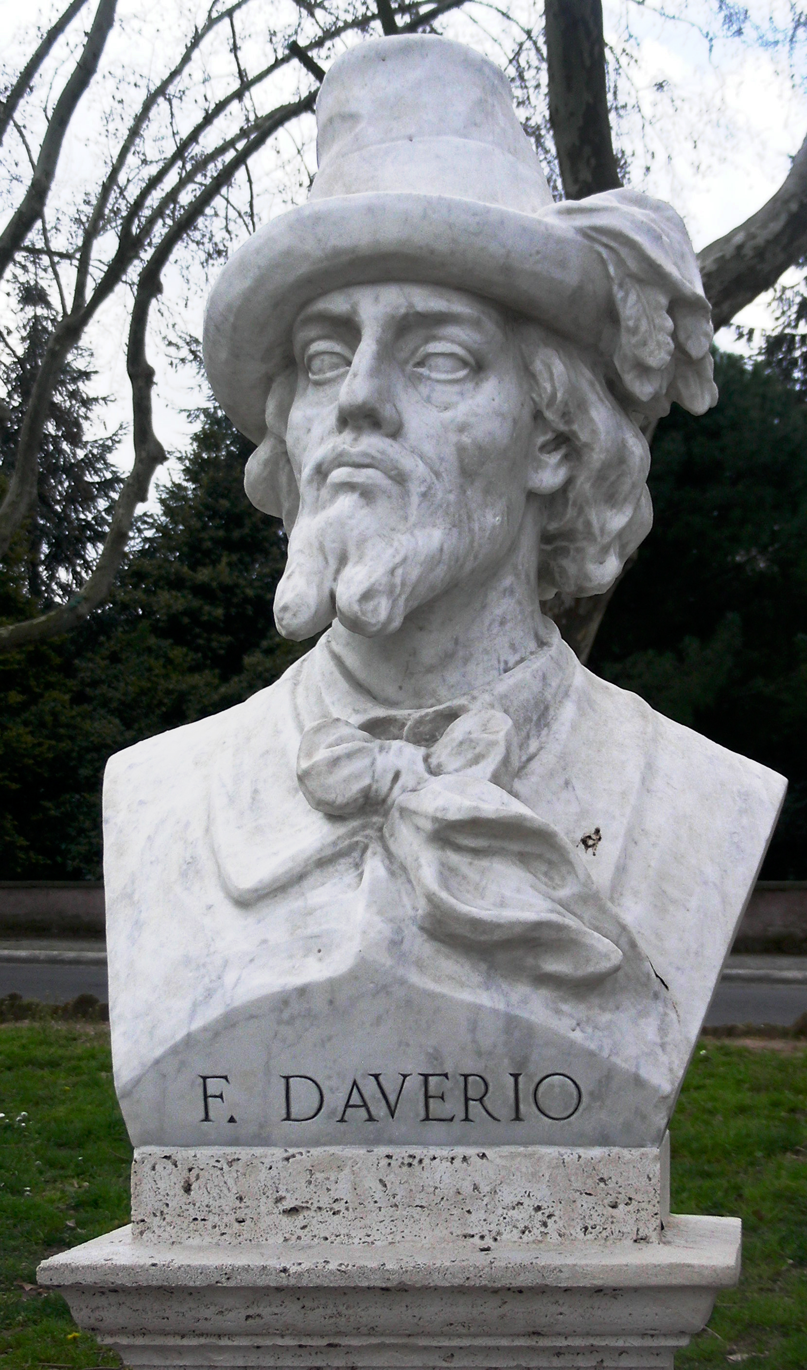 Rome, park of Gianicolo, bust of Francesco Daverio (1815 - 1849), by Salvatore Buemi (1910-1911)